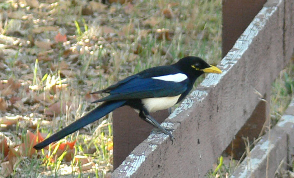 Yellow-billed Magpie at San Luis Obispo, California, USA.